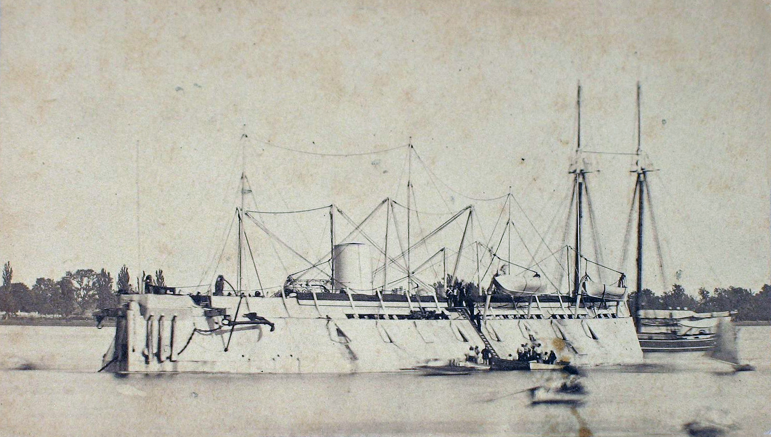 United States Navy's Civil War wooden-hulled broadside ironclad ship 'USS New Ironsides'